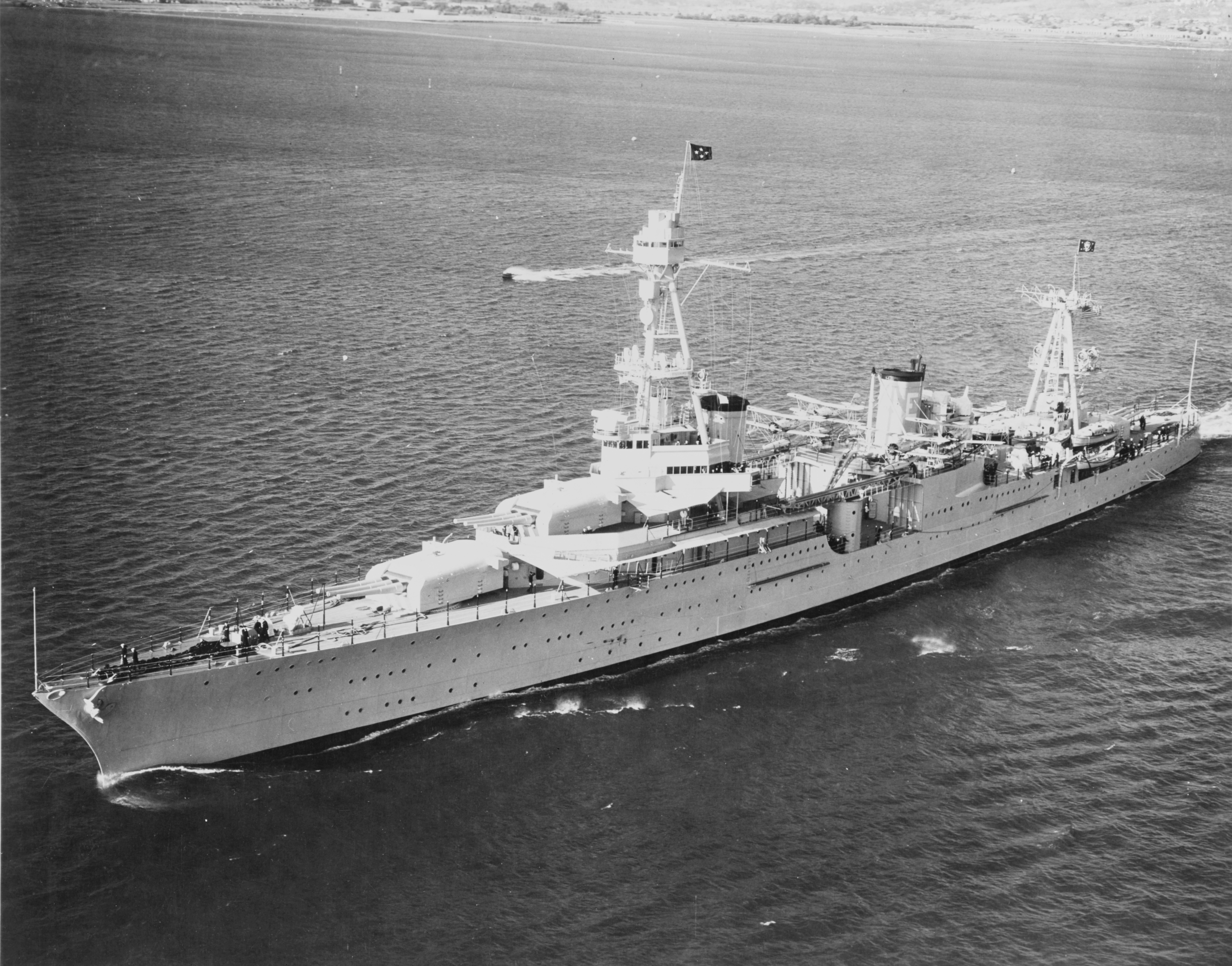 The U.S. Navy heavy cruiser USS Houston (CA-30) off San Diego, California (USA), in October 1935, with the U.S. President Franklin D. Roosevelt on board. She is flying an admiral's four-star flag at her foremast peak, and the Presidential flag at her mainmast peak.